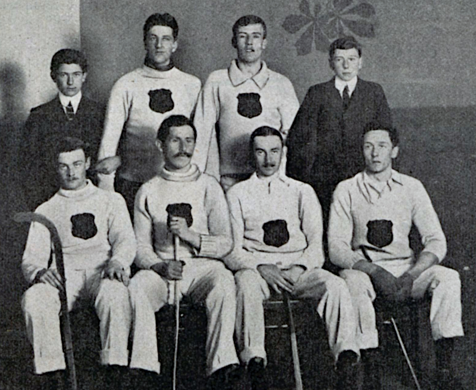 1904-01-28 - La Vie au grand air - Sporting Club de Lyon vs Princes Ice Hockey Club London